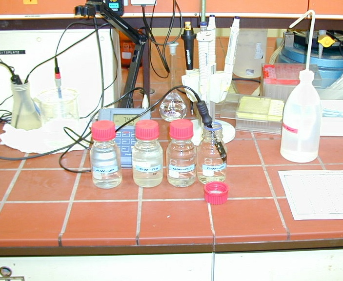 PH measurement with an electrode.